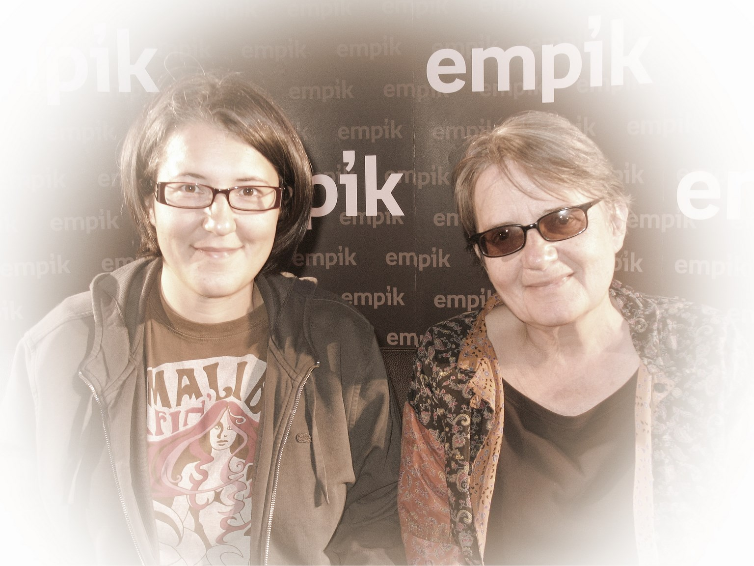 Katarzyna Adamik & her mother Agnieszka Holland (2009)